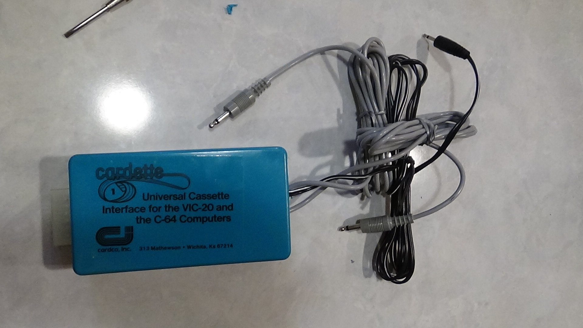 A CARDOCO Cardette